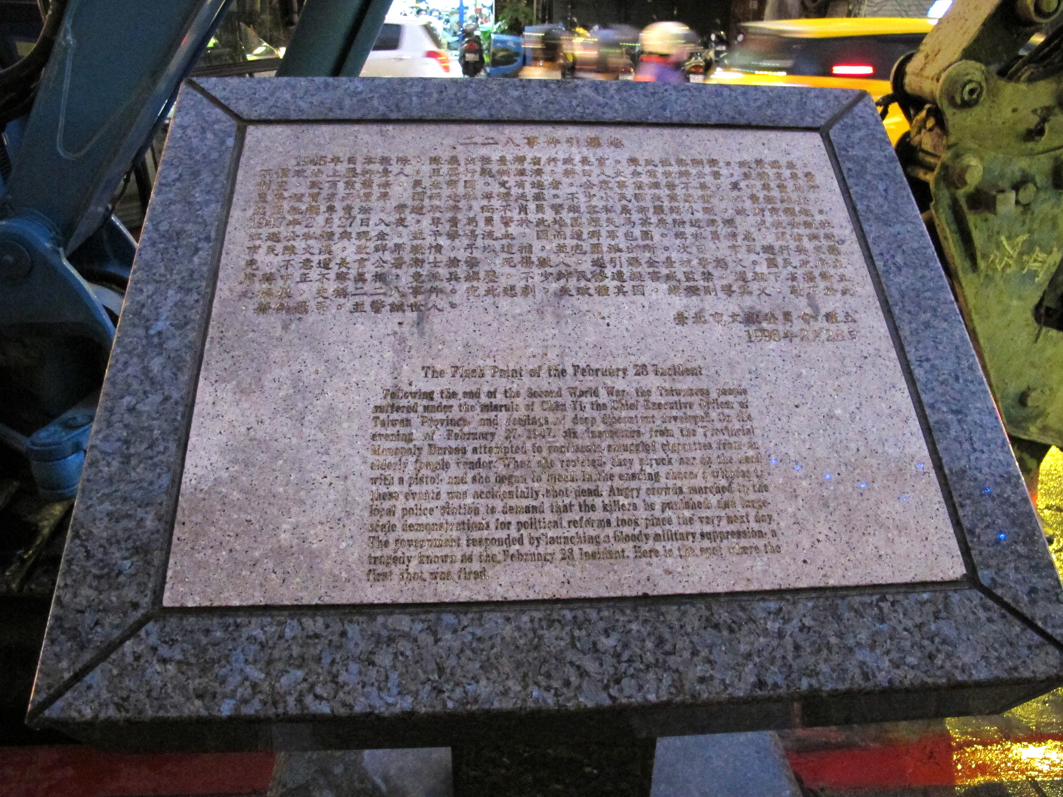 "The Flash Point of the February 28 Incident" stele by Taipei City Archives.